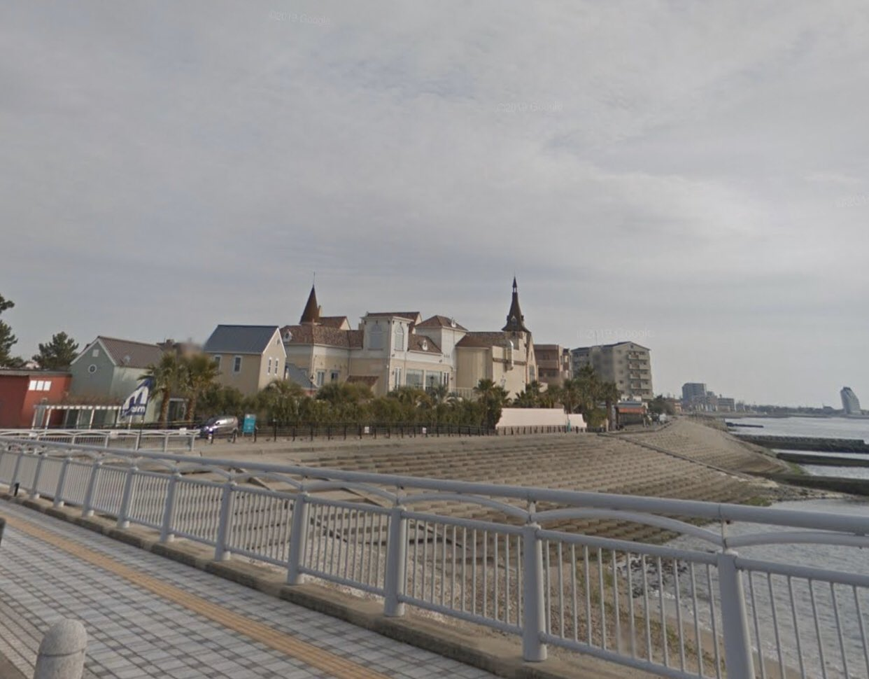 Shinmaiko Beach from Shinmaiko Fine Bridge.